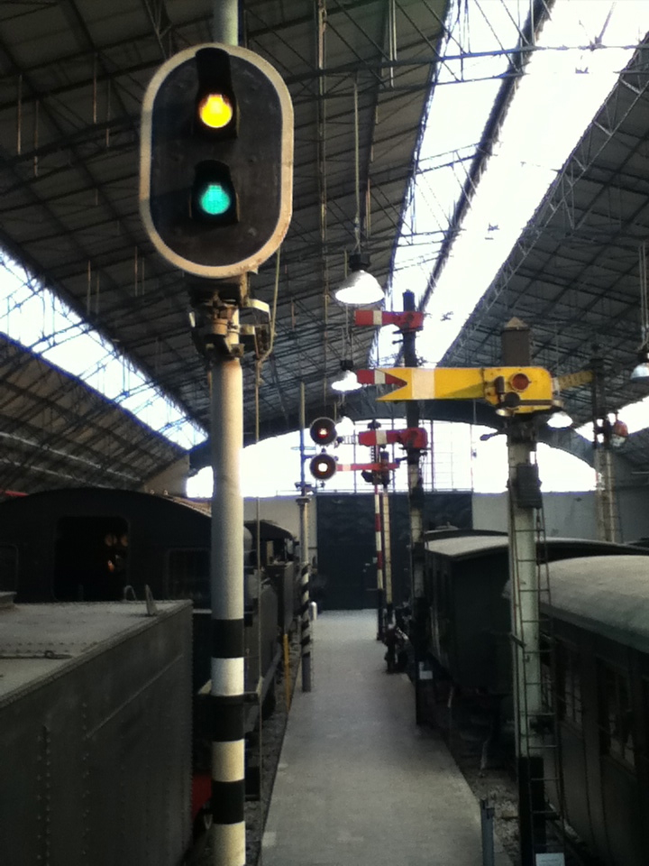 Signals, old and new, home and distant, in the Science and Technology Museum, Milan